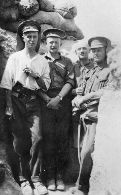 Captain Reginald MacDougall Bowman, Australian Army Medical Corps (AAMC), visiting some 9th Battalion officers in a support trench. Left to right: Captain J. M. Dougall, Lieutenant M. Wilder-Neligan (later Lieutenant Colonel CMG DSO DCM, Commanding Officer of the 10th Battalion), Captain Bowman and Captain E.C.P. Plant (9th Battalion adjutant and later Major General DSO OBE, Commanding Officer of the NSW Lines of Communication Area in WW2).